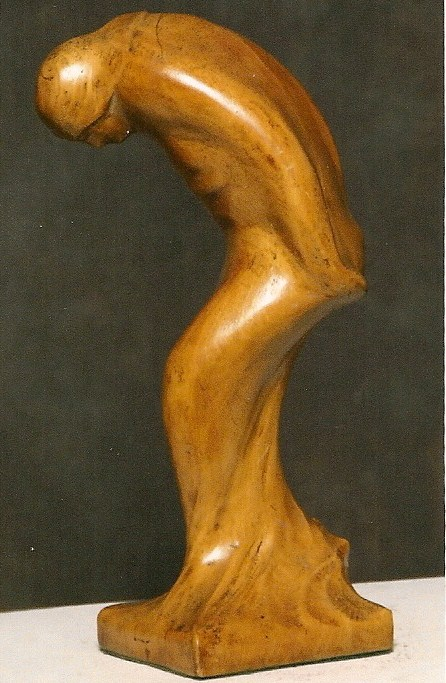 Sou'wester. Woodcarving by William Lamb